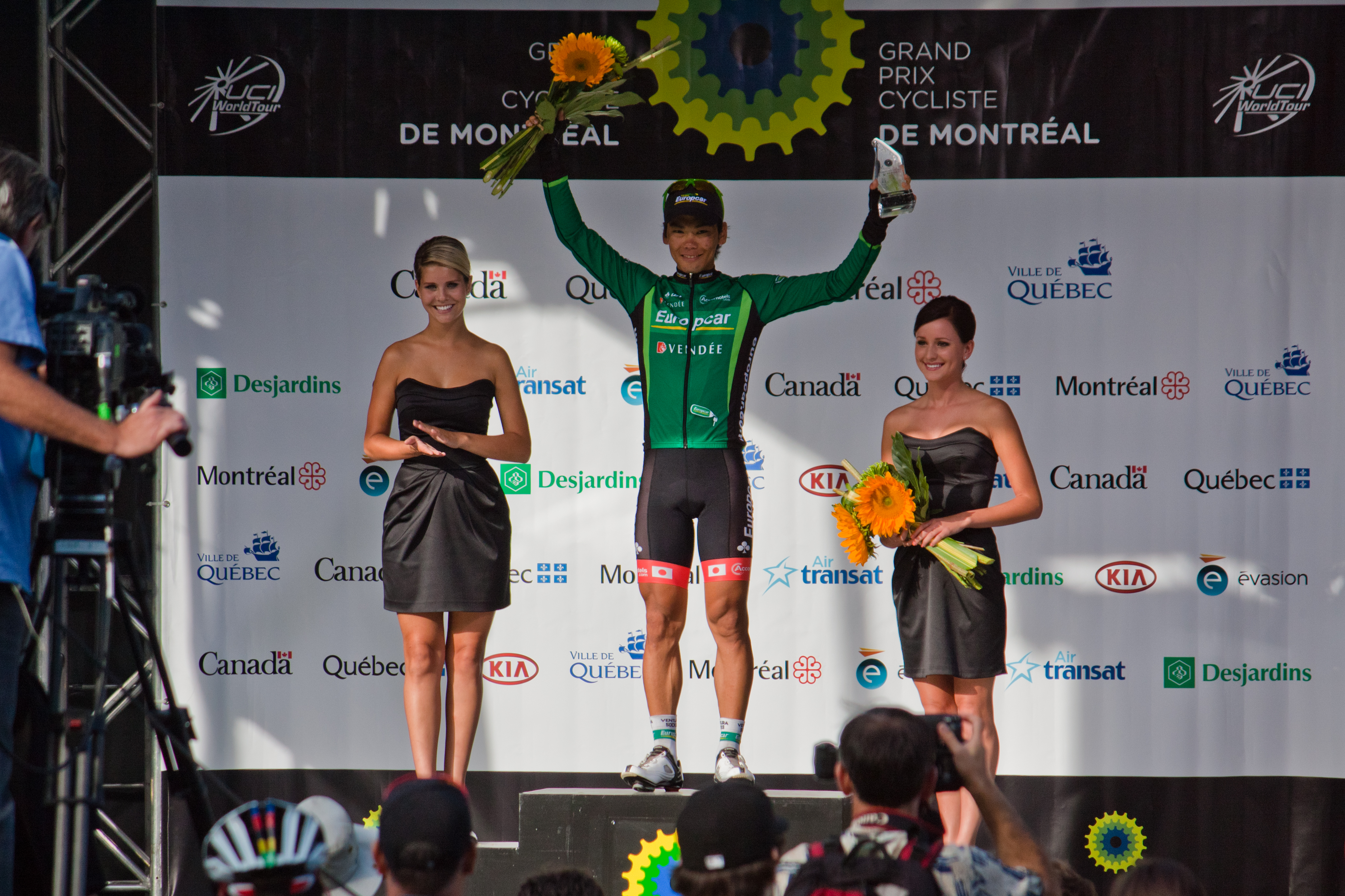 The winner of 'Most Aggresive Rider', Yukiya Arashiro of Japan, riding for Europcar. Grand Prix Cycliste de Montréal, GPCQM, 2011.